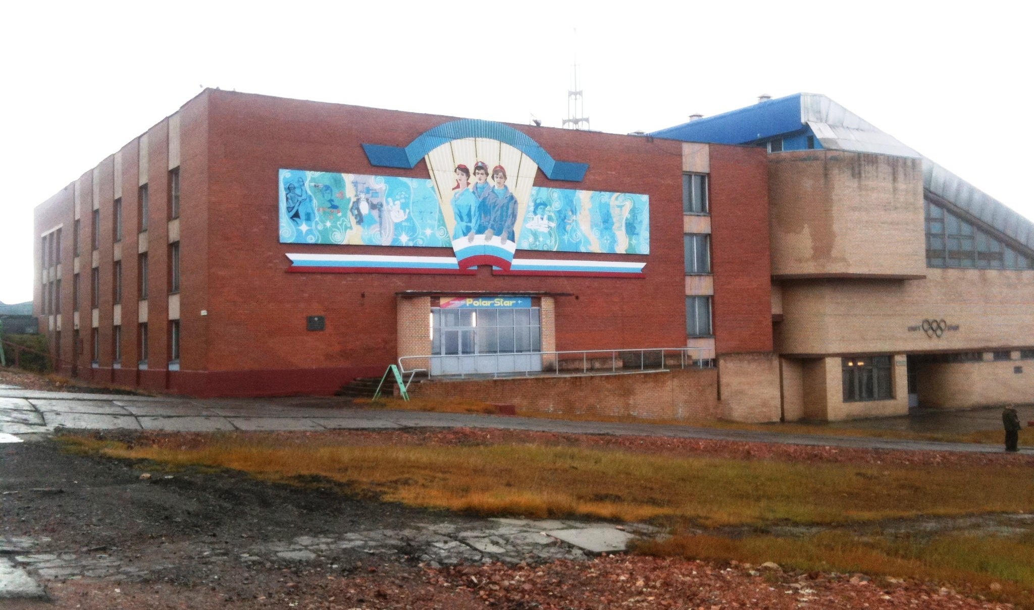 The Pomor Museum and Sports and Culture Centre in Barentsburg, Spitsbergen.